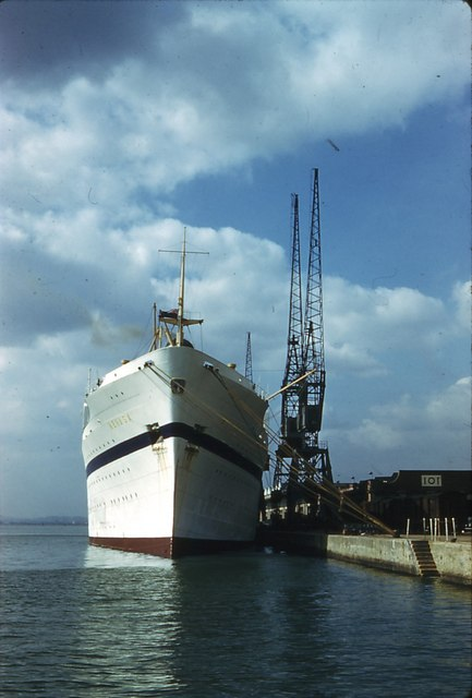 101 Dock Southampton 1965. The ship is SS Nevasa